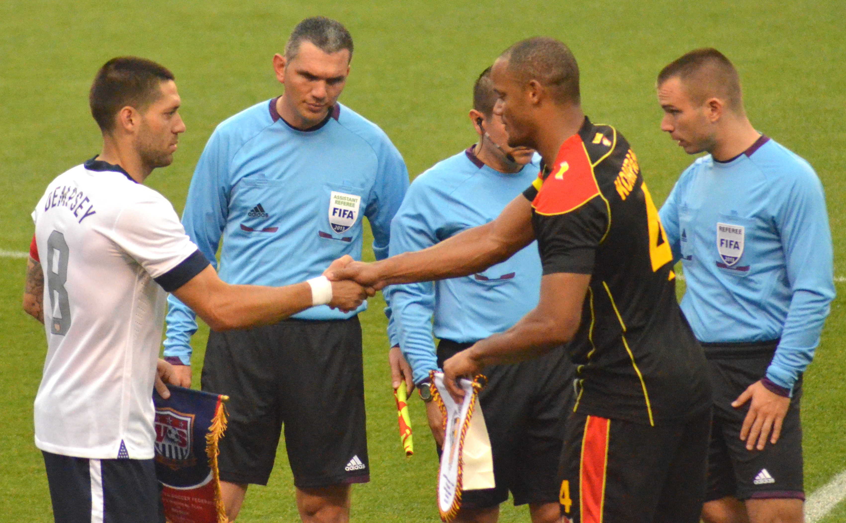 FirstEnergy Stadium Home of the Cleveland Browns